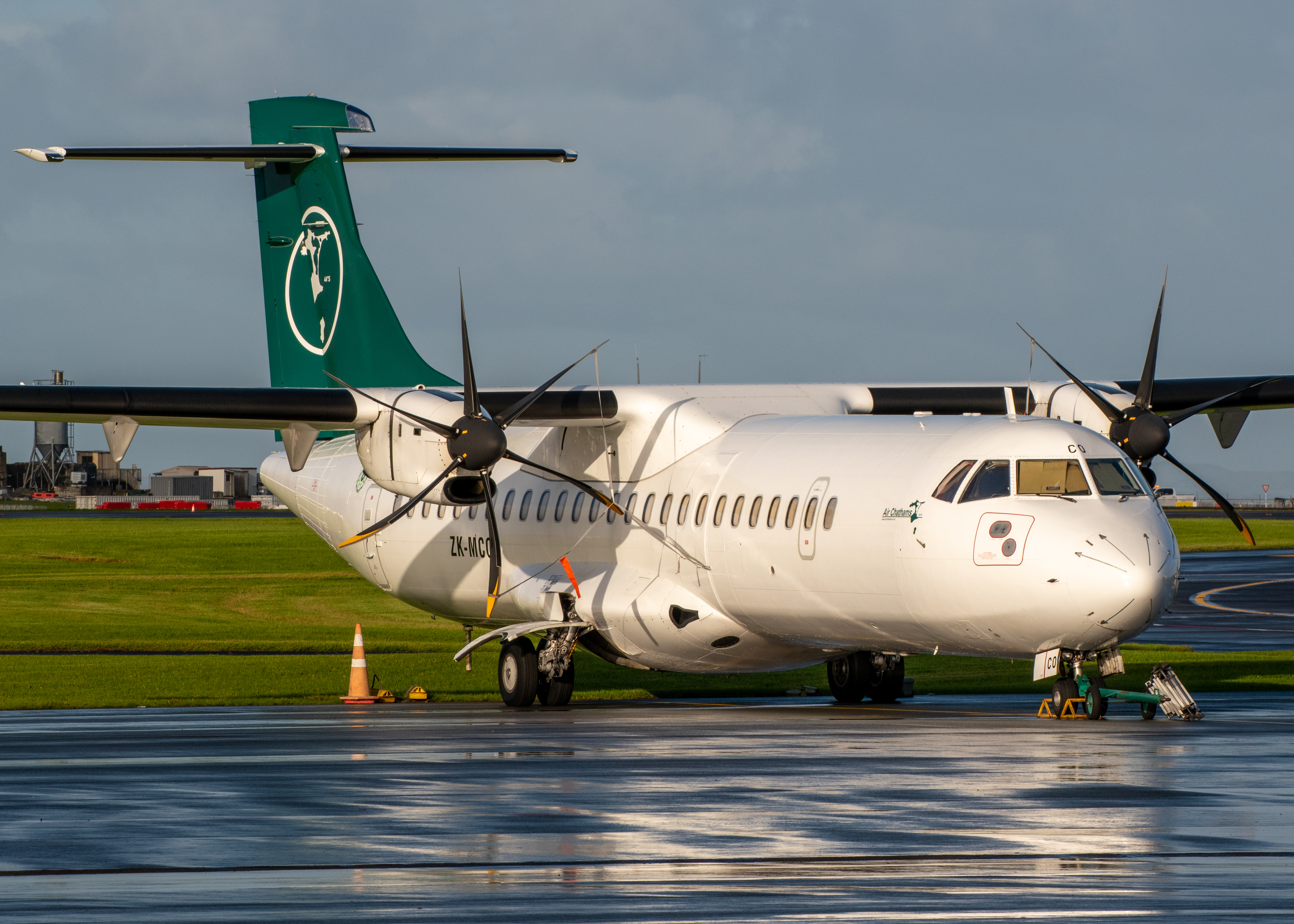 The first ATR for Air Chathams, which was purchased from Air New Zealand in 2019